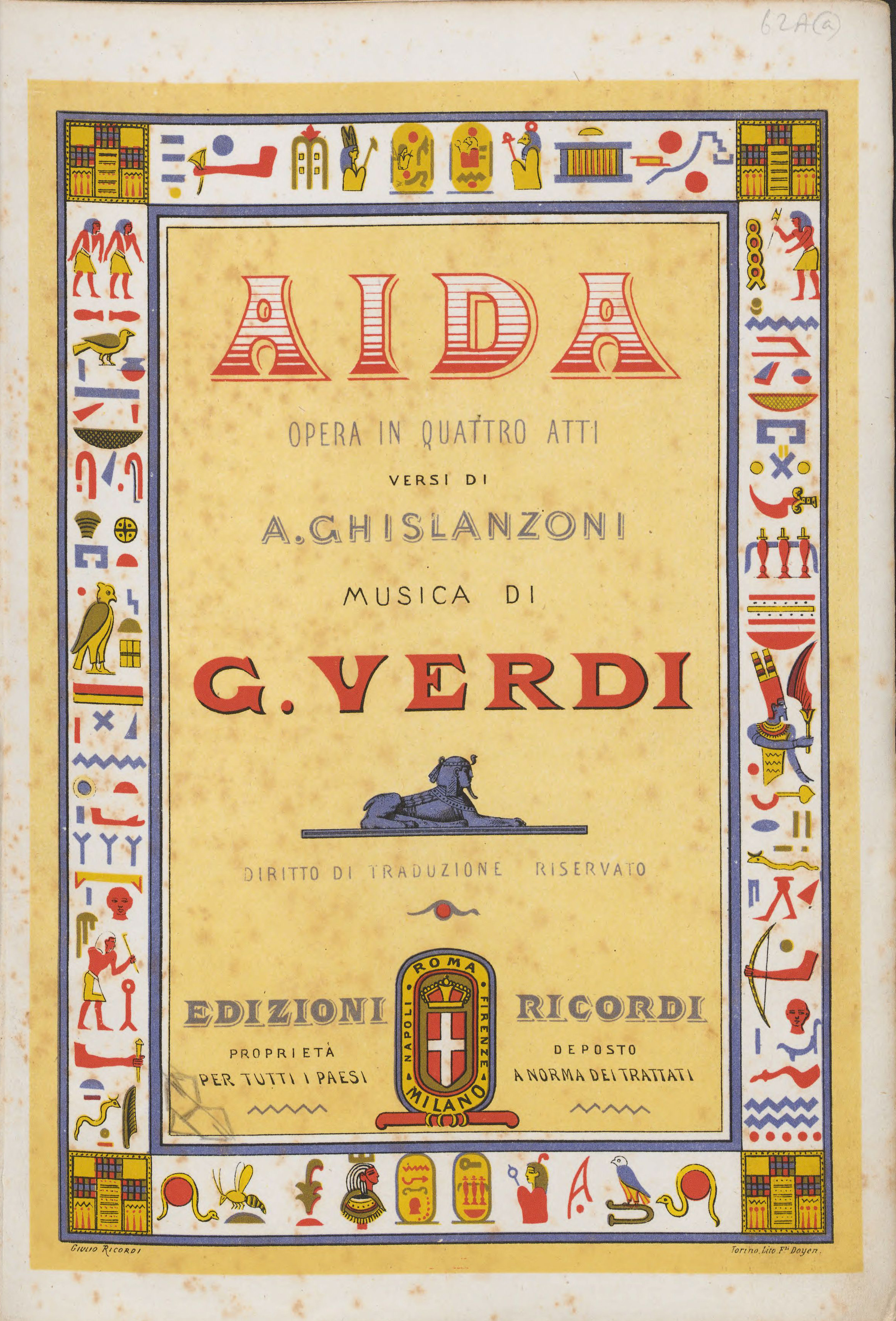 In Verdi, Giuseppe, 1813-1901. [Aïda. Vocal score]. Aïda : opera in quattro atti / versi di Antonio Ghislanzoni ; musica di G. Verdi ; [riduzione di Franco Faccio]. Milano : Ricordi, [1872?]. Merritt Mus 857.1.648.7 PHI